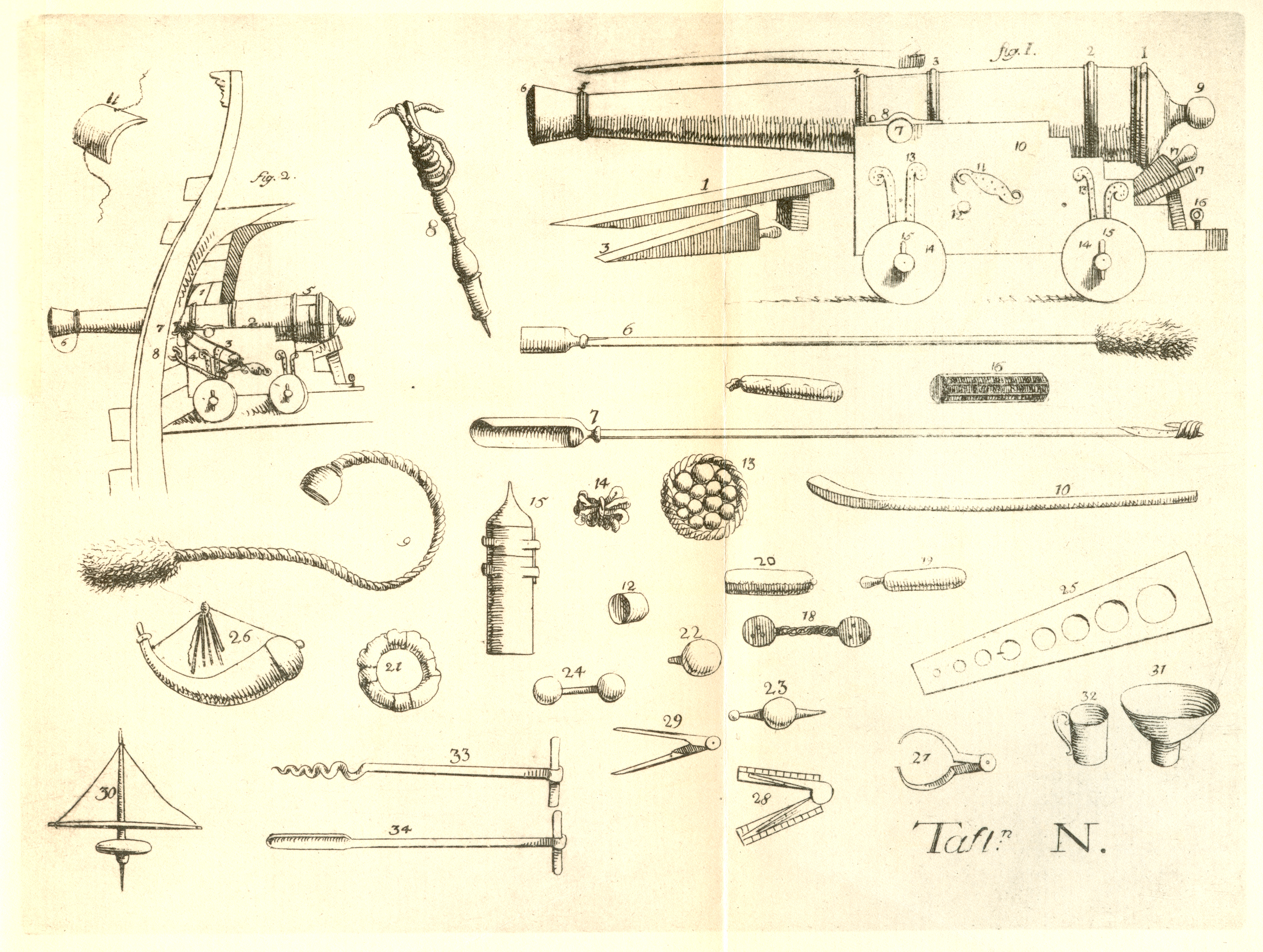 One of several folded copperplate engravings included in the book Skeps byggerij eller Adelig öfnings tionde tom by Åke Rålamb, a Swedish book on shipbuilding published in 1691.